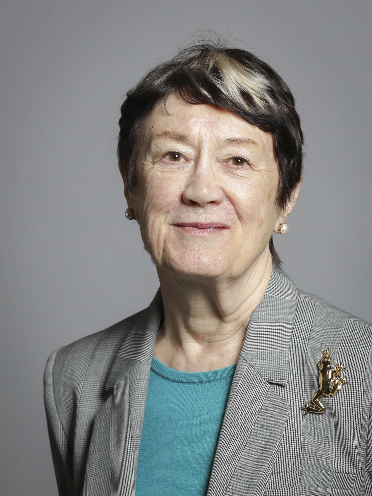 Official portrait of Baroness Warwick of Undercliffe 3×4 portrait of Baroness Warwick of Undercliffe